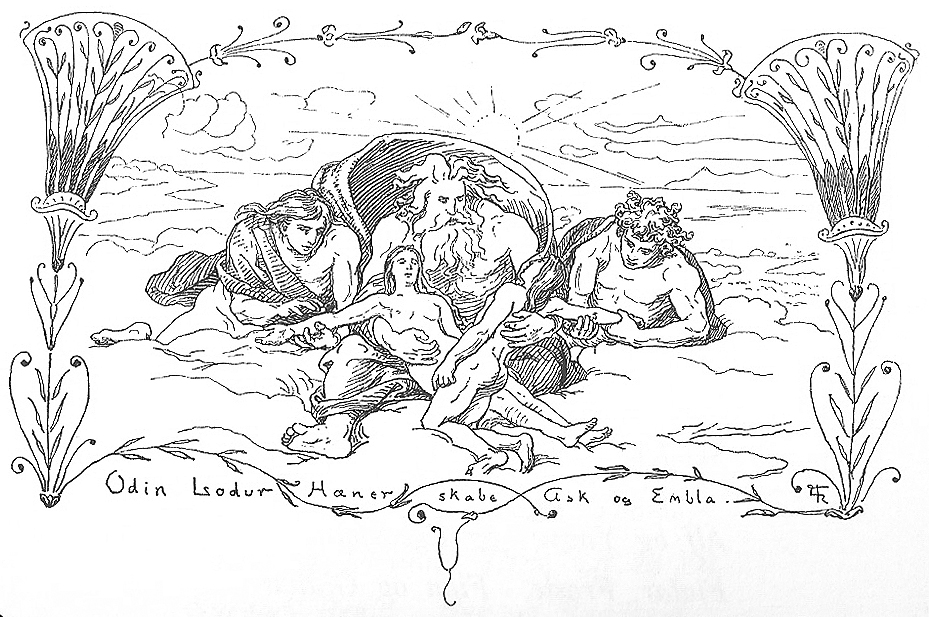 Caption reads "Odin, Lodur, Hoenir skabe Ask og Embla". Hœnir, Lóðurr and Odin create Askr and Embla.